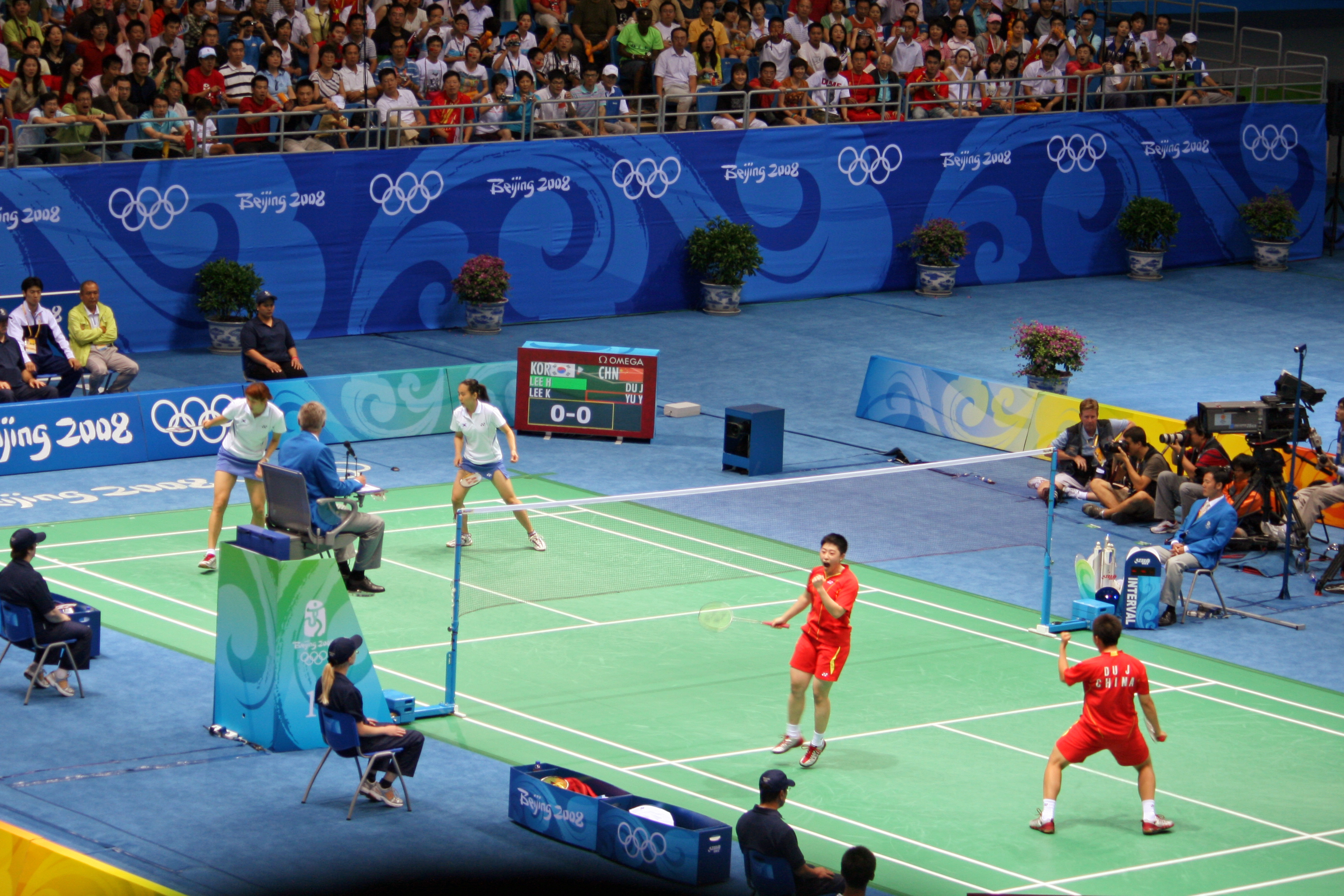 Korea vs China